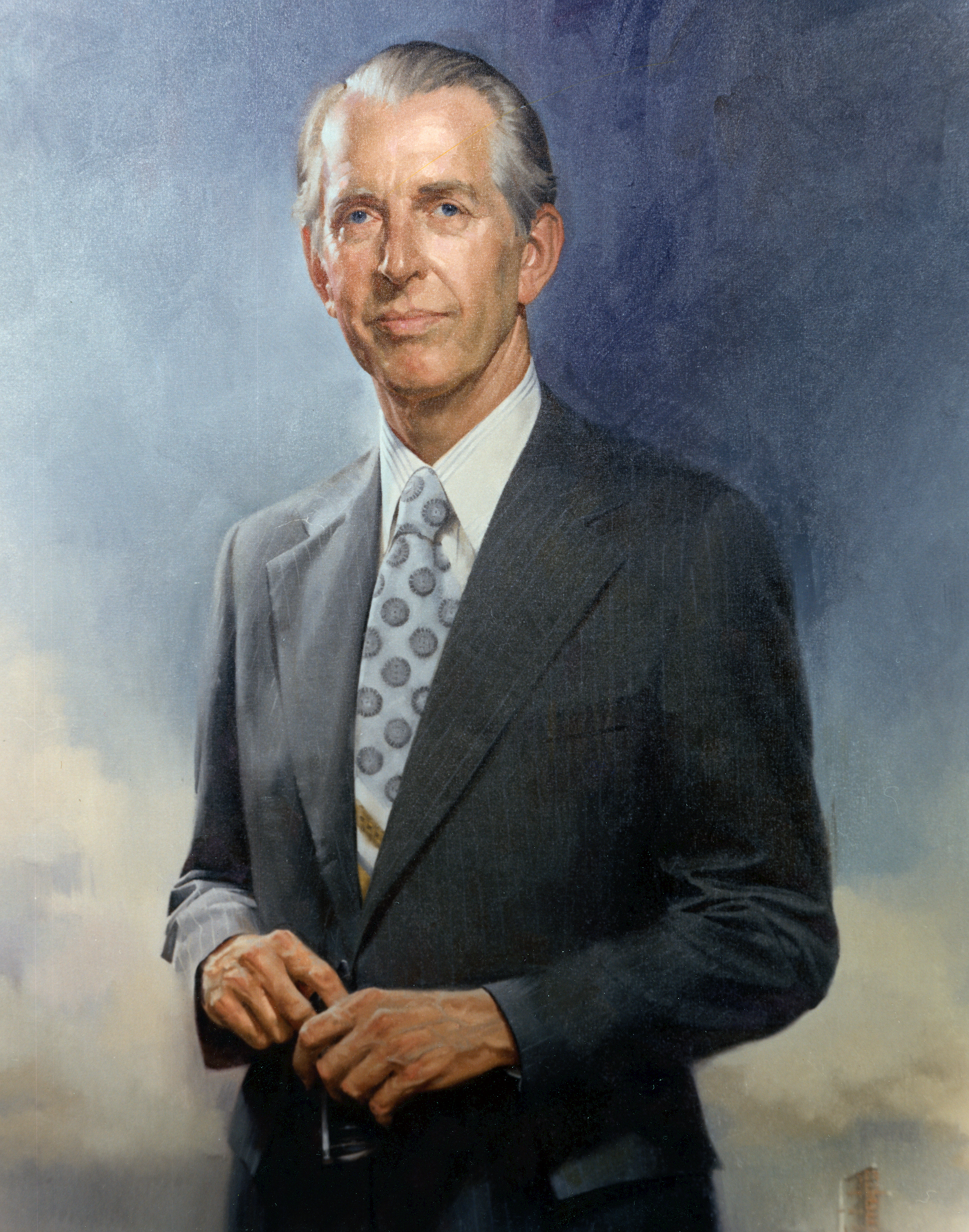 Dr. James C. Fletcher served as NASA Administrator from April 27, 1971, to May 1, 1977, and from May 12, 1986, to April 8, 1989. During his first administration at NASA, Dr. Fletcher was responsible for beginning the Shuttle effort, as well as the Viking program that sent landers to Mars. He oversaw the Skylab missions and Viking probes and approved the Voyager space probe, the Hubble Space Telescope and the Apollo-Soyuz Test Project. During his second tenure, he presided over the effort to recover from the Challenger accident. Dr. Fletcher died in December 1991 of lung cancer.